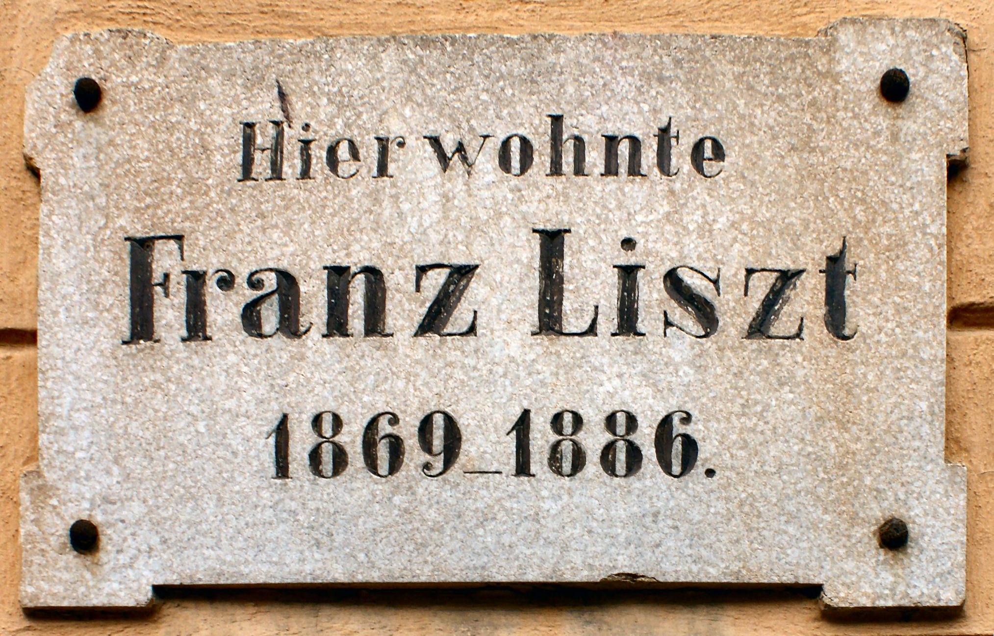 "Here lived Franz Liszt 1869 - 1886" Seen in Weimar